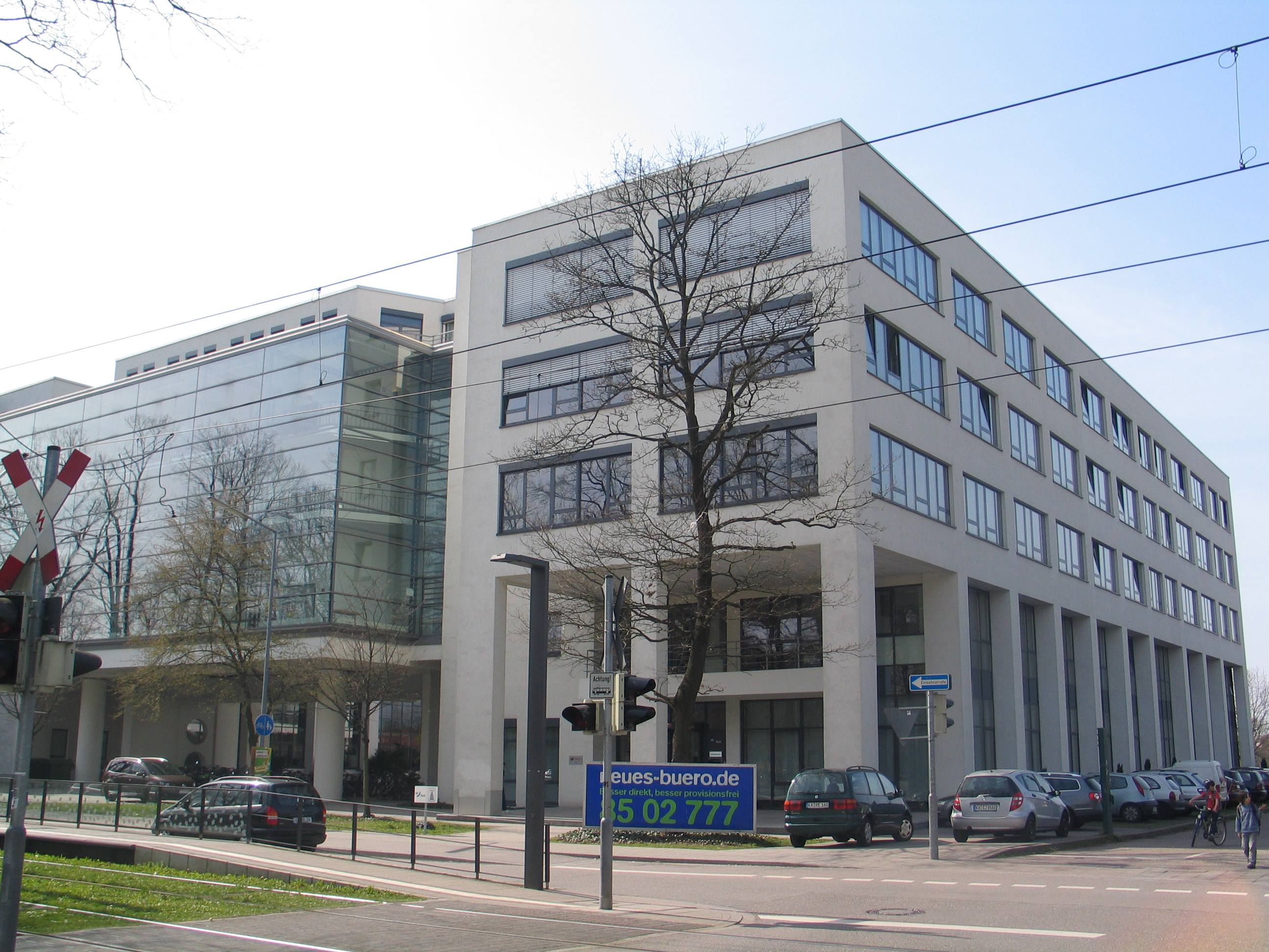 University of Cooperative Education (Karlsruhe)